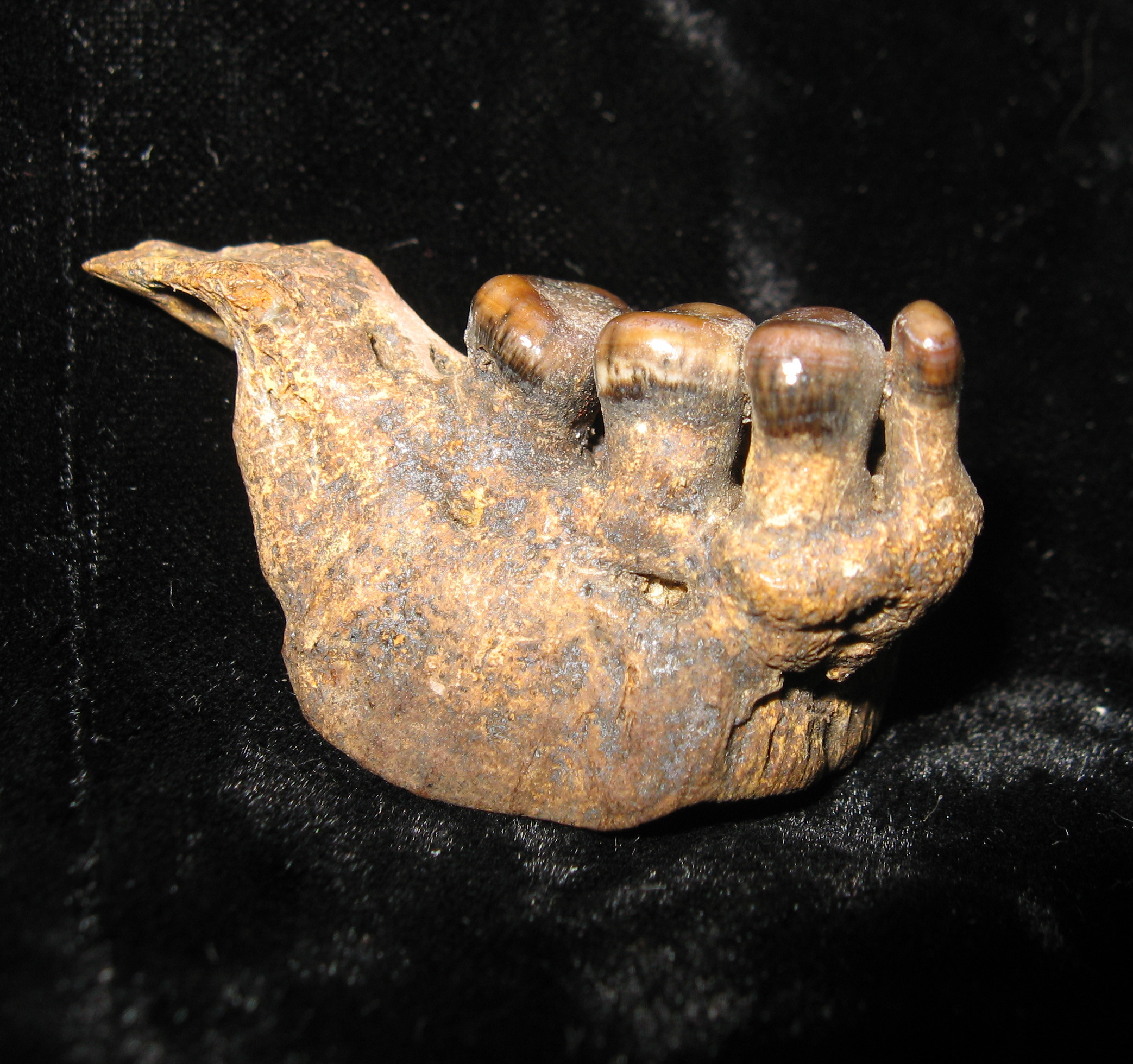 A single fossil jaw ~4.5cm long from the extinct Mylocheilus robustus. Pliocene Glenns Ferry Formation, Idaho, USA